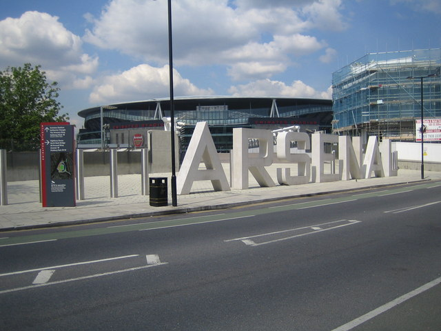 Highbury: Emirates Stadium, N5 Arsenal's name straddles the approach to the Emirates Stadium from Drayton Park.